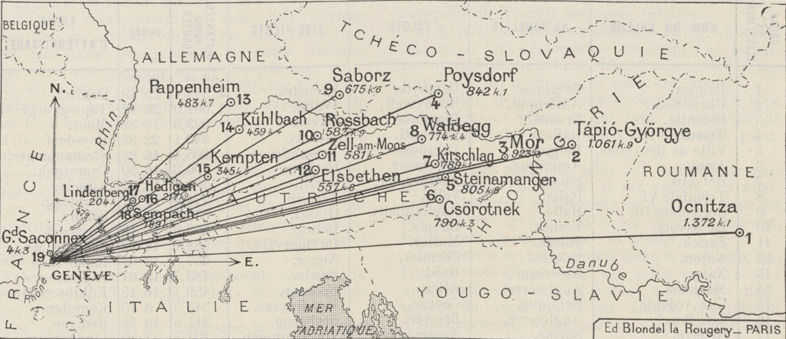 Gordon Bennett Cup in balloonig 1922.